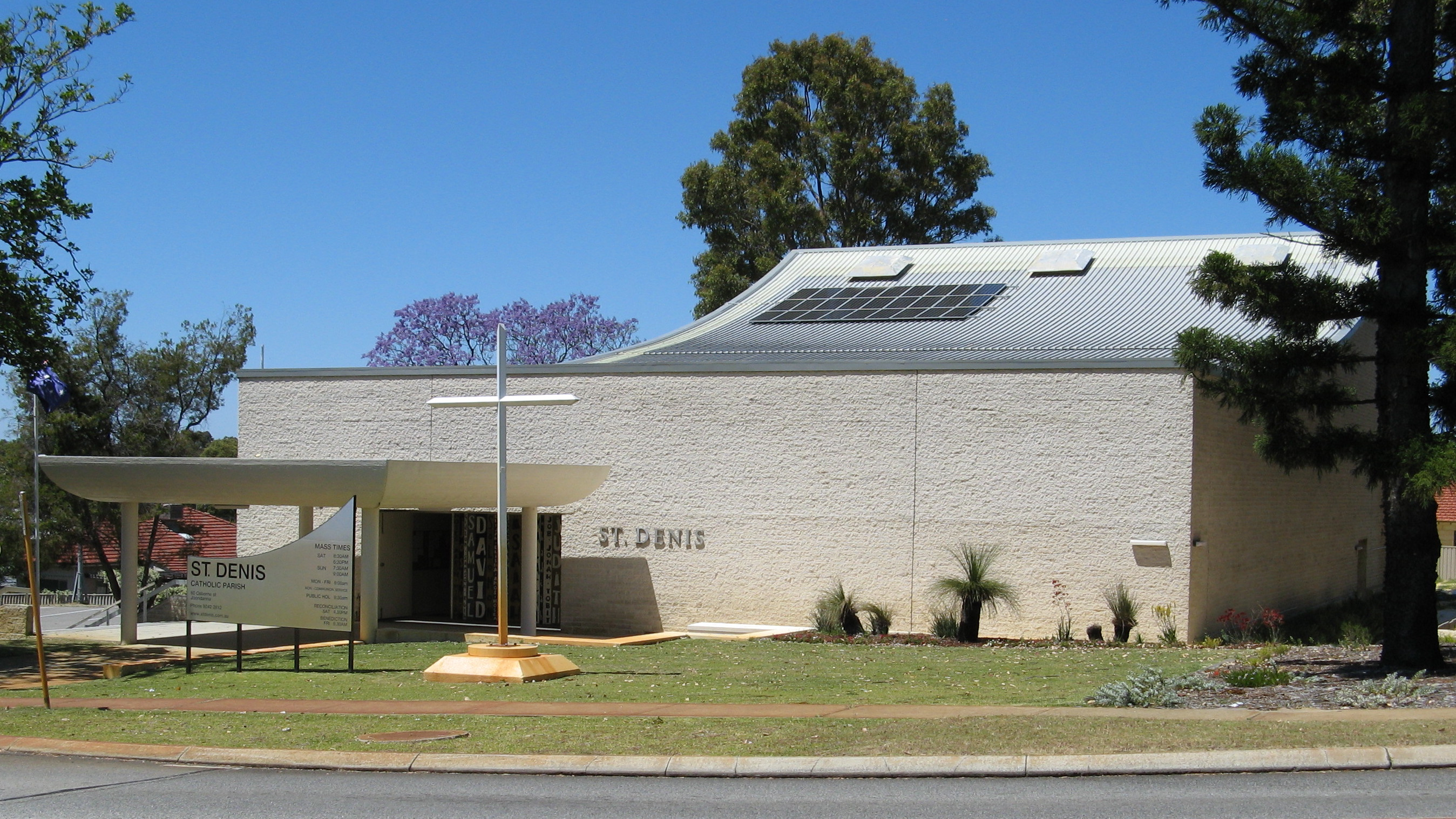 St Denis Church, Joondanna, Australia, from the front